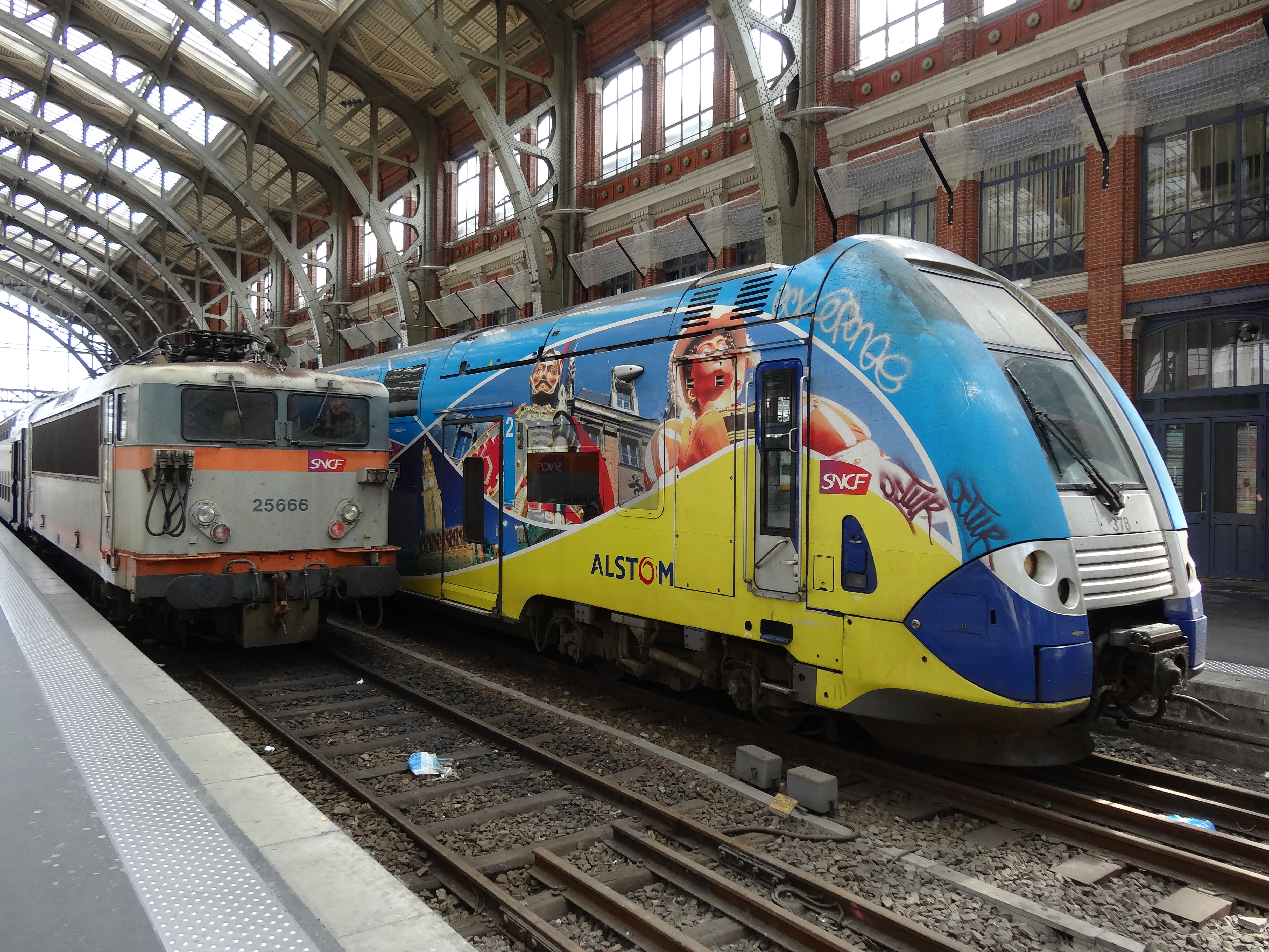 Gare de Lille Flandres